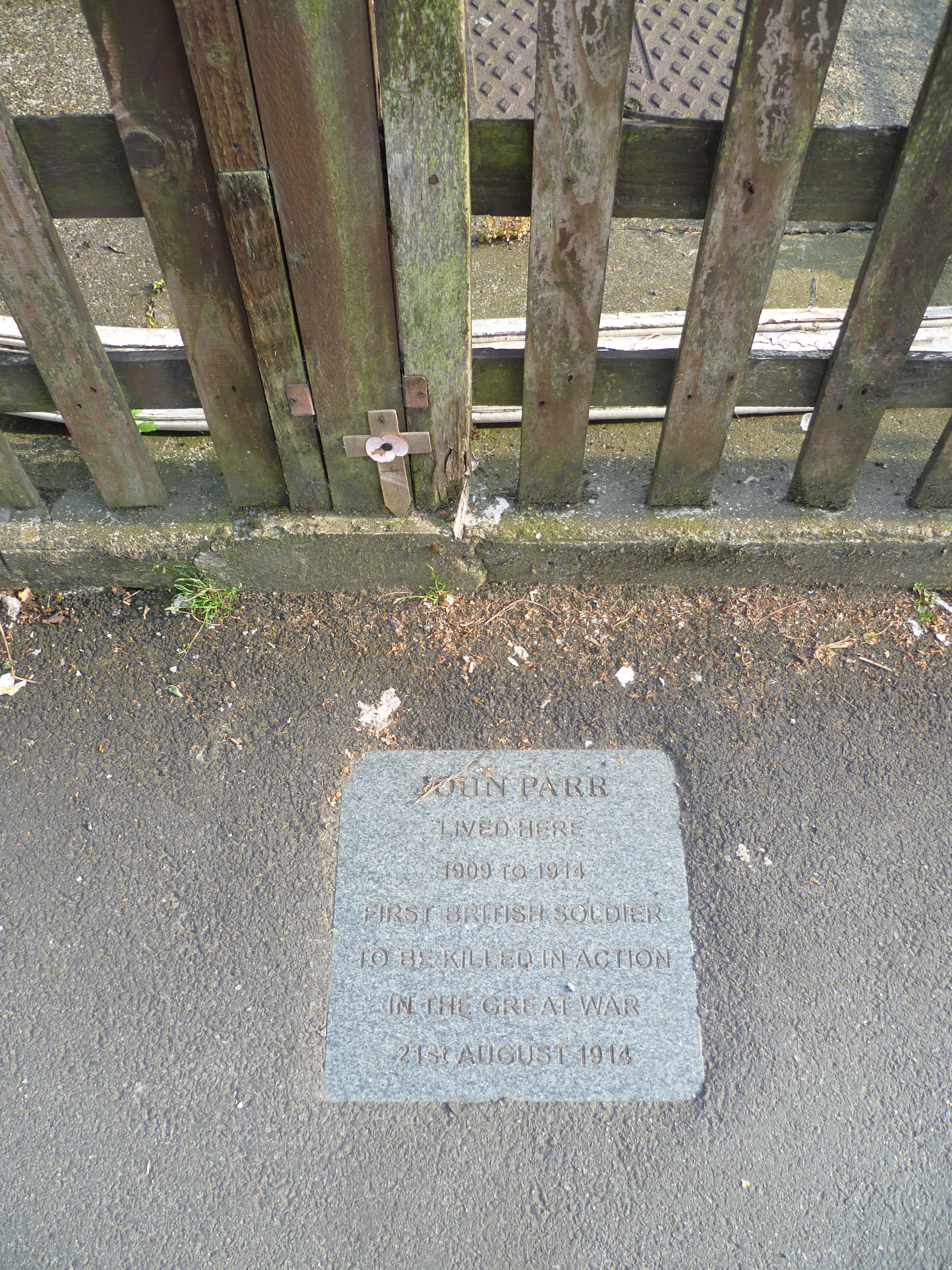 London